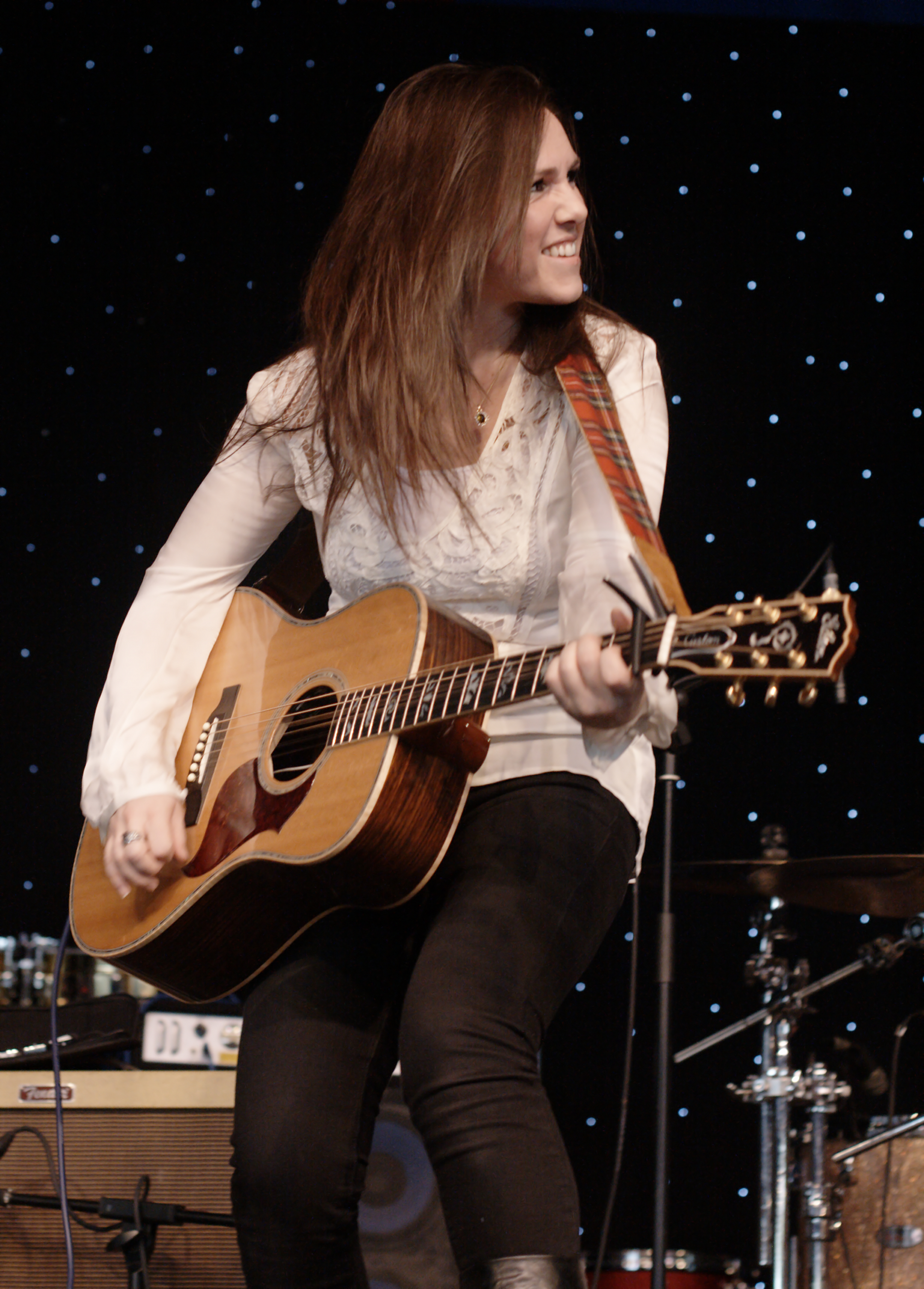 Sandi Thom at the Ealing Blues Festival, held in Walpole Park Ealing.